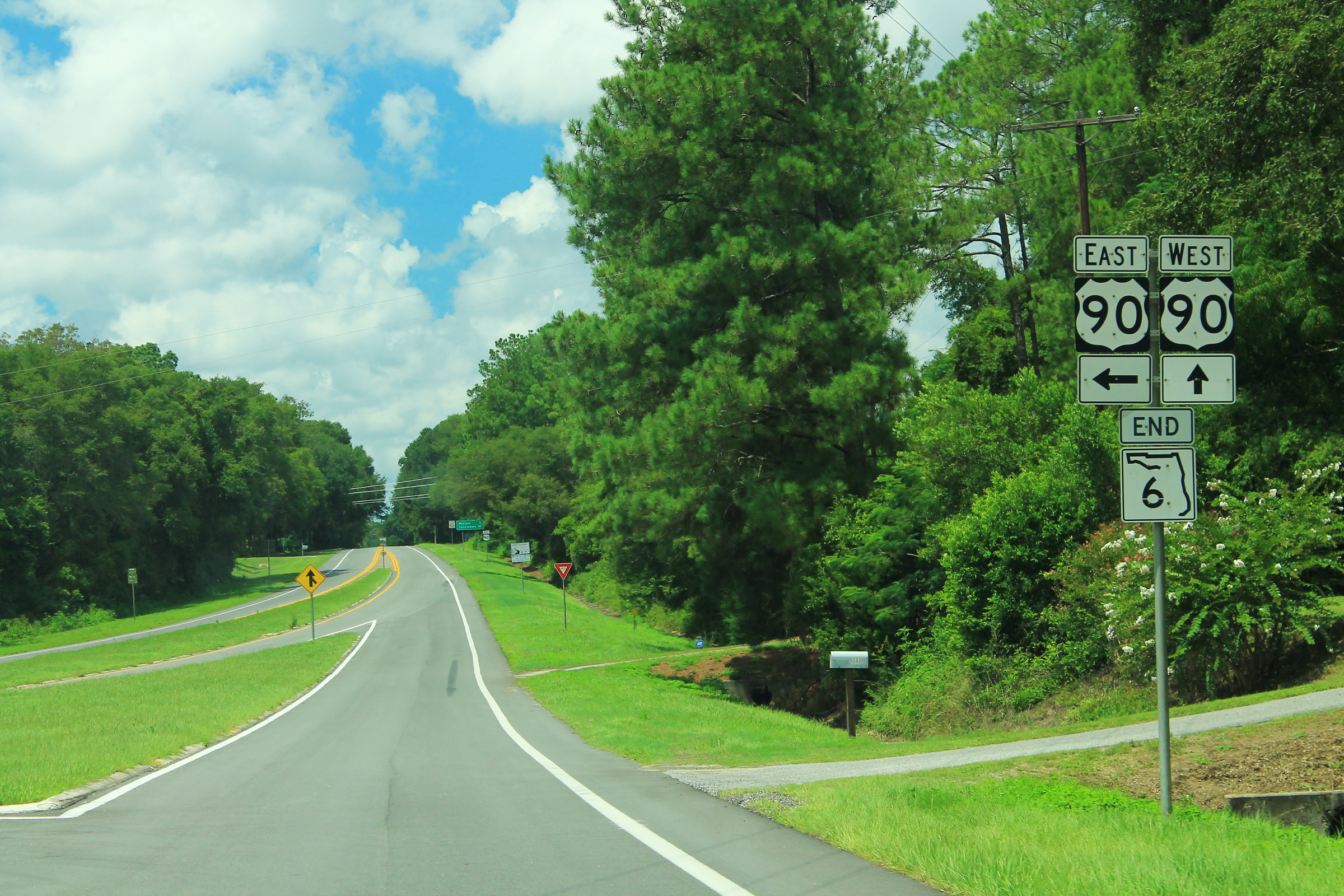 FL6wEnd-US90ewRoad